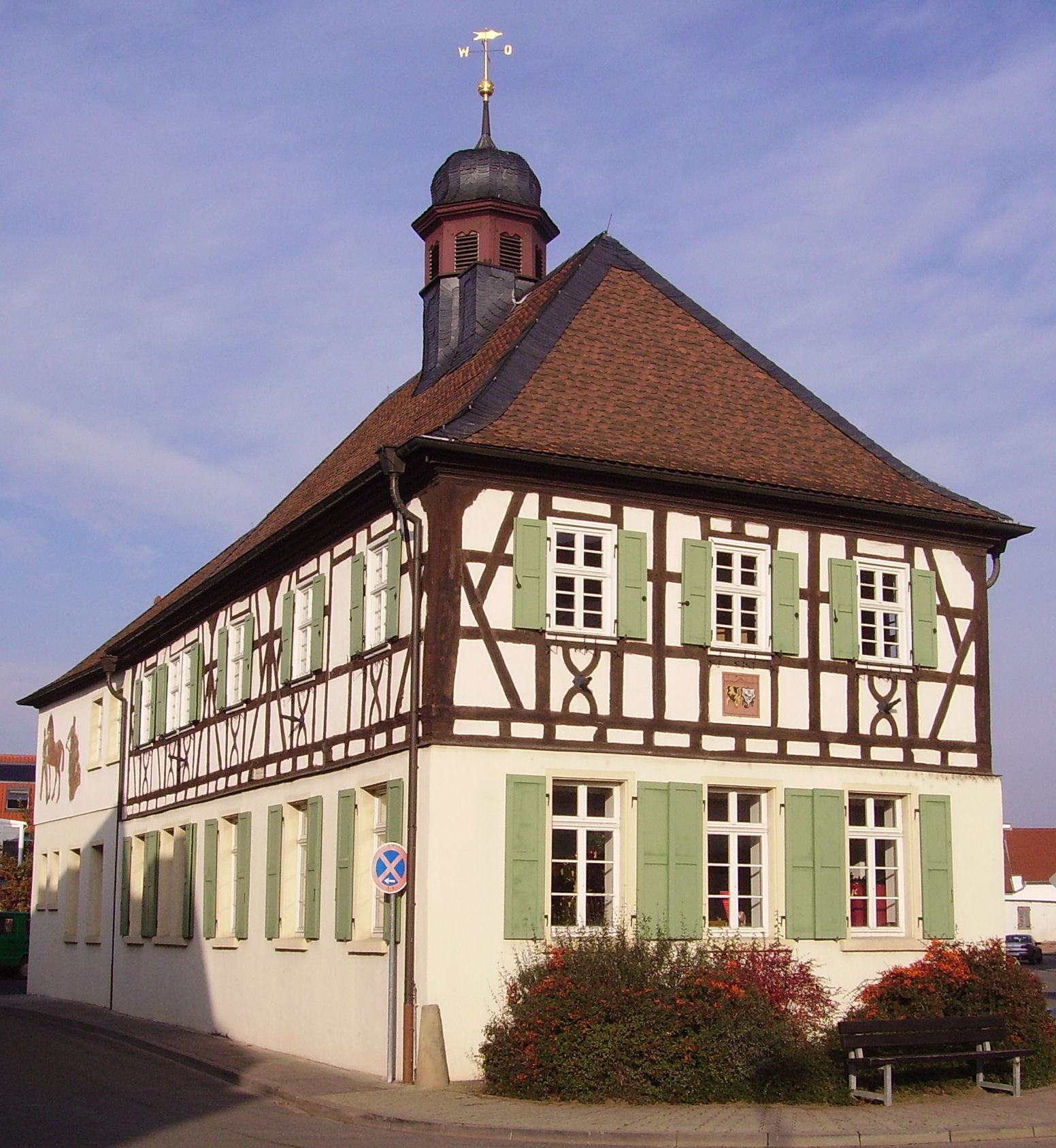 view of Mutterstadt, Germany